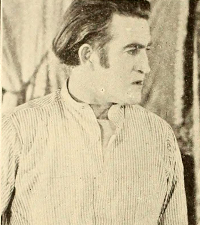 Still from the American film serial The Mystery of 13 (1919) with Francis Ford, page 712 of the July 19, 1919 Motion Picture News.